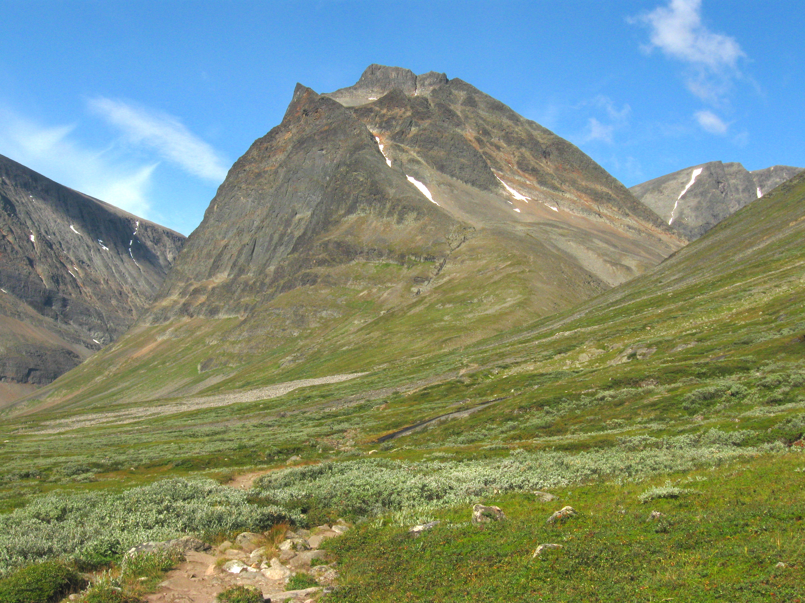 Mount Tuolpagorni (sometimes spelled Duolbagorni or Tolpagorni) in the Kebnekaise massif, Sweden.